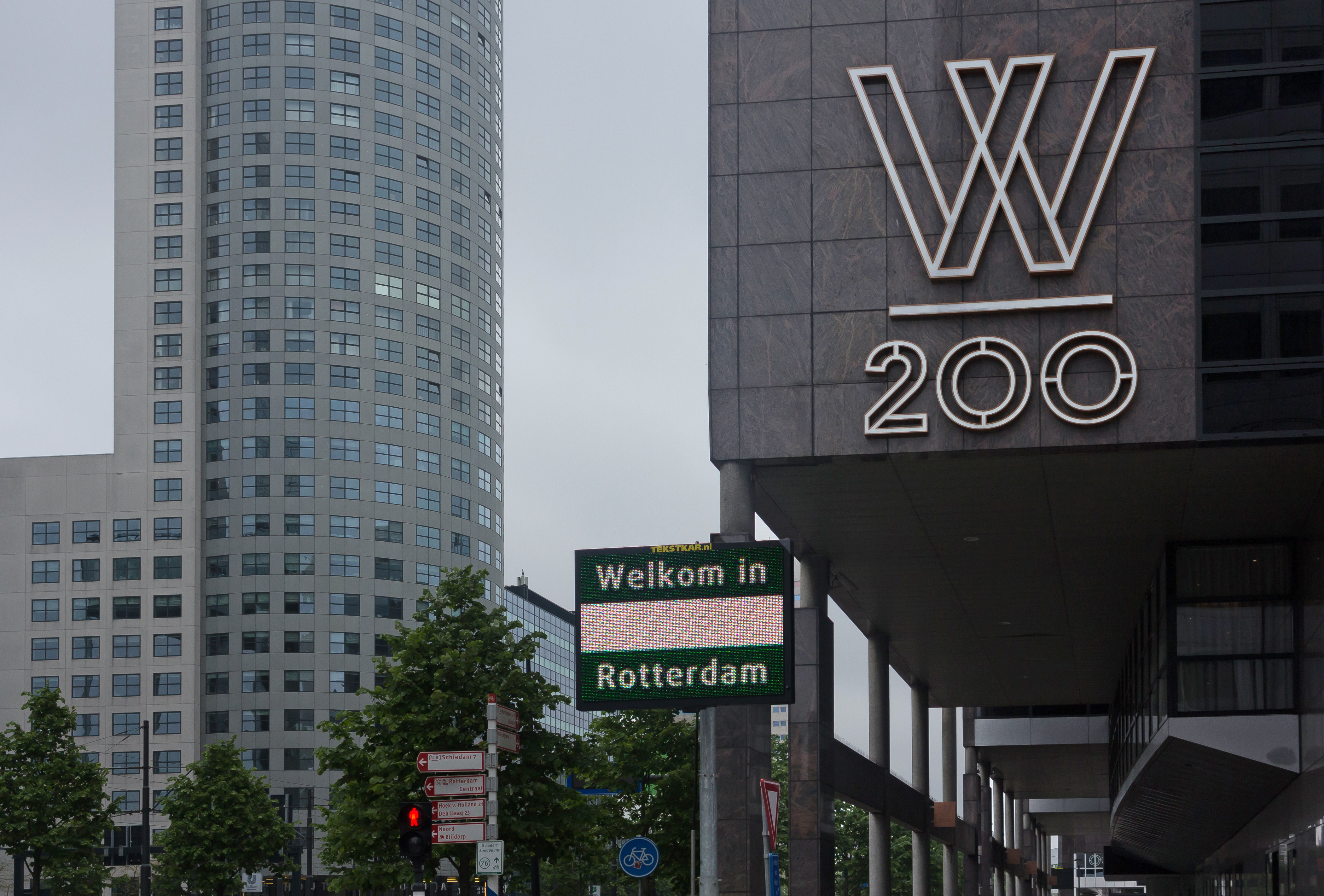 Rotterdam, Welcome in Rotterdam in neon lights at Weena 200